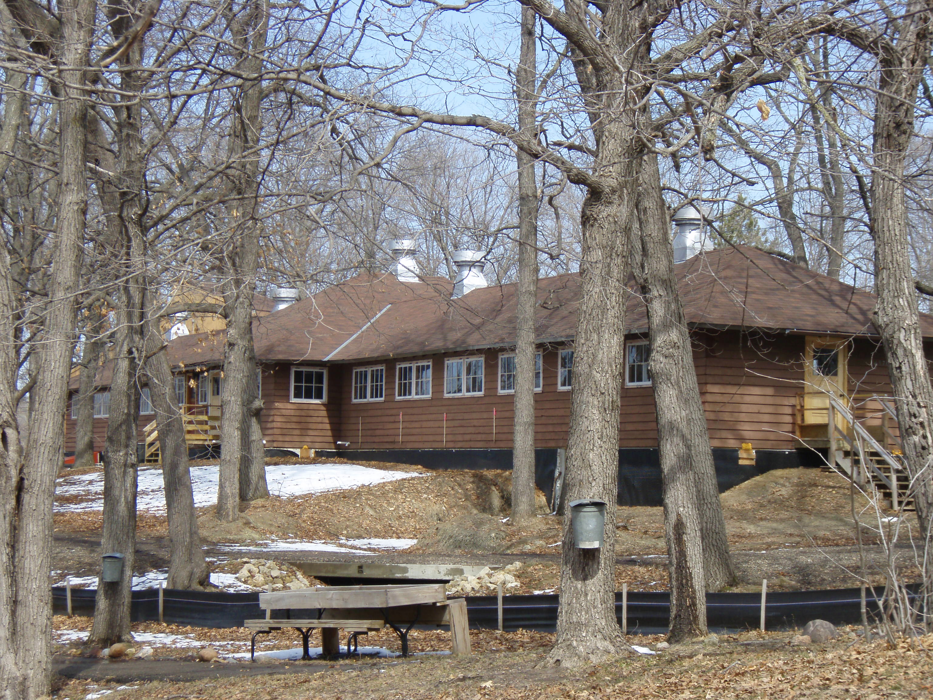 Glen Lake Children's Camp in Eden Prairie, Minnesota. This was a camp for children with tuberculosis, and is now listed on the National Register of Historic Places.